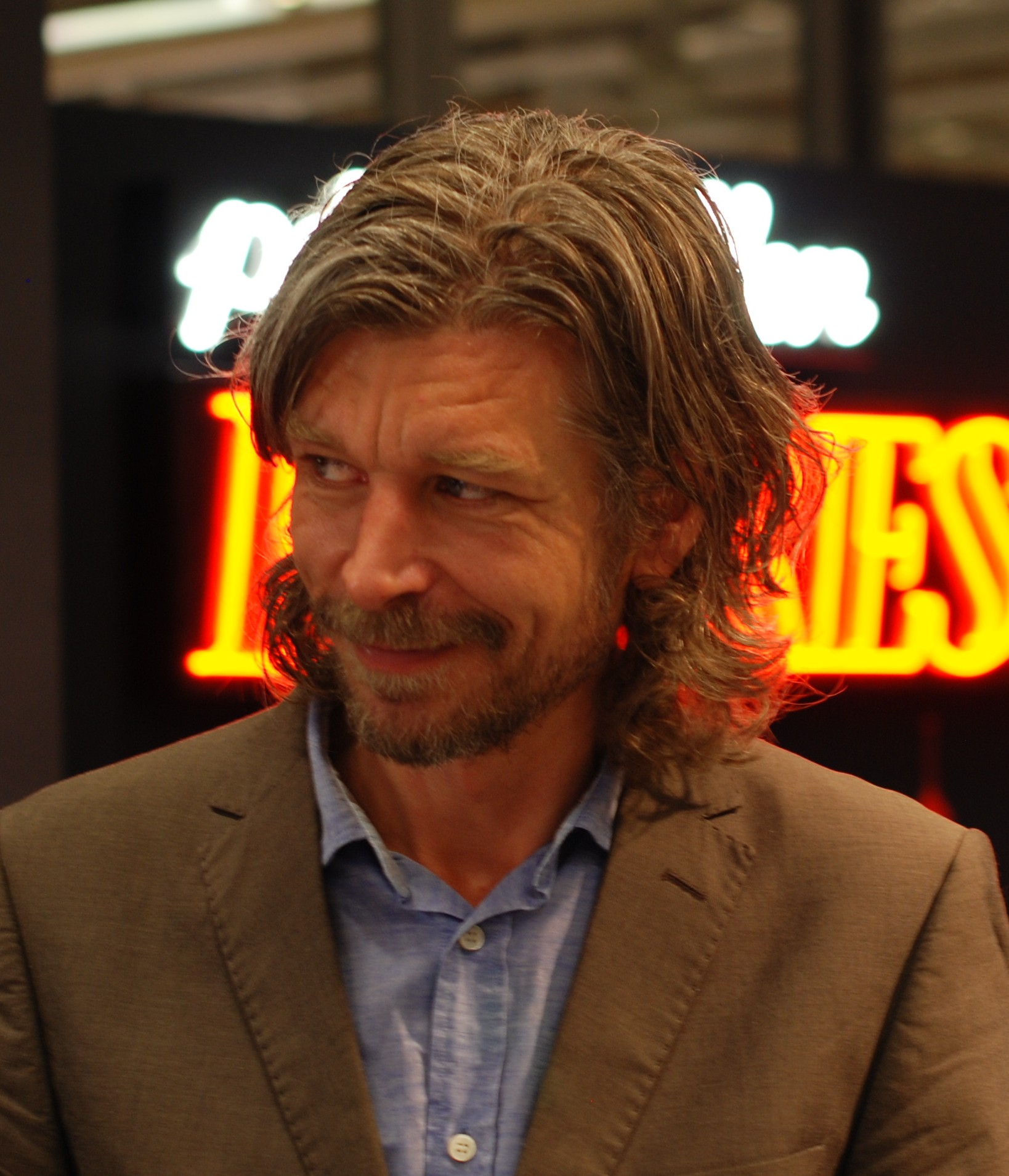 Norwegian author Karl Ove Knausgård at the Göteborg Book Fair 2010